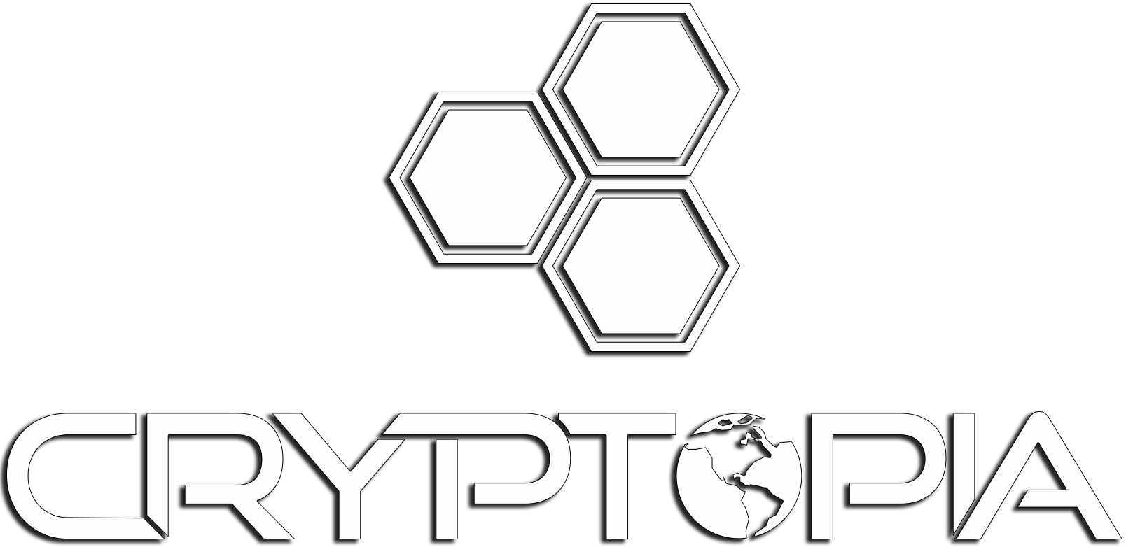 Cryptopia logo - white